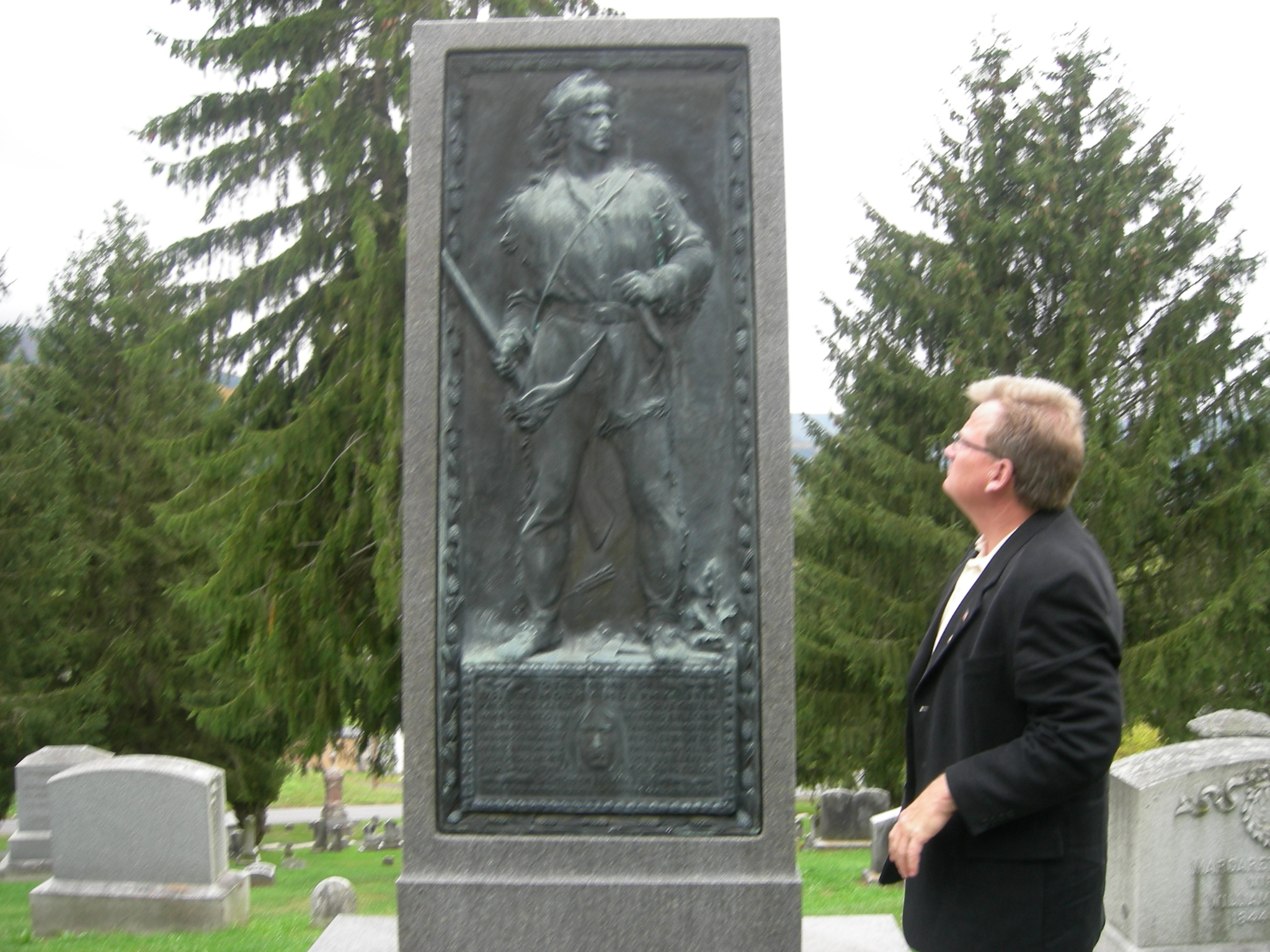 This is the Timothy Murphy Monument in the Middleburgh, NY Cemetery. Special thanks to the Cemetery Commissioner. Taken by Sgt. bender.